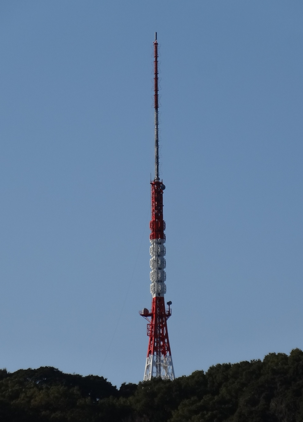 NHK Kagoshima Tsurumaru (Kagoshima) Transmitting Tower in 2015 (Shiroyama, Kagoshima City, Japan)